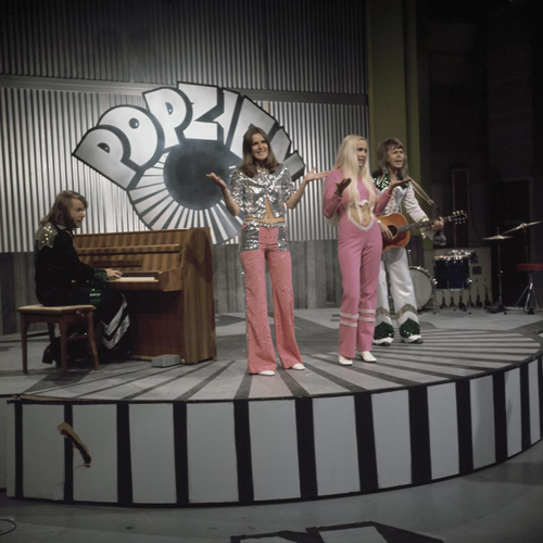 ABBA, rop/rock program 'Popzien' on Dutch television